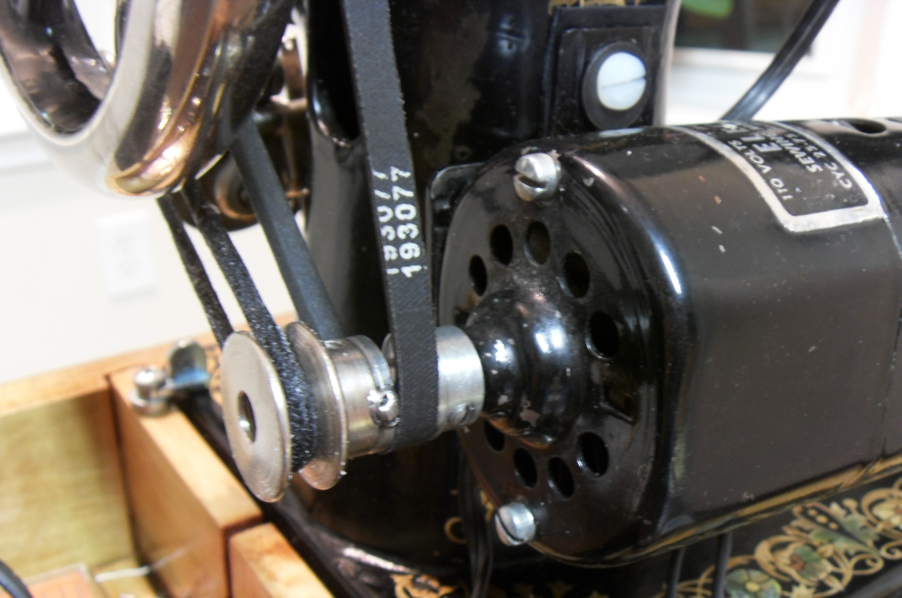 Singer model 27 - hack permitting use of a V belt while still being able to use the bobbin winder